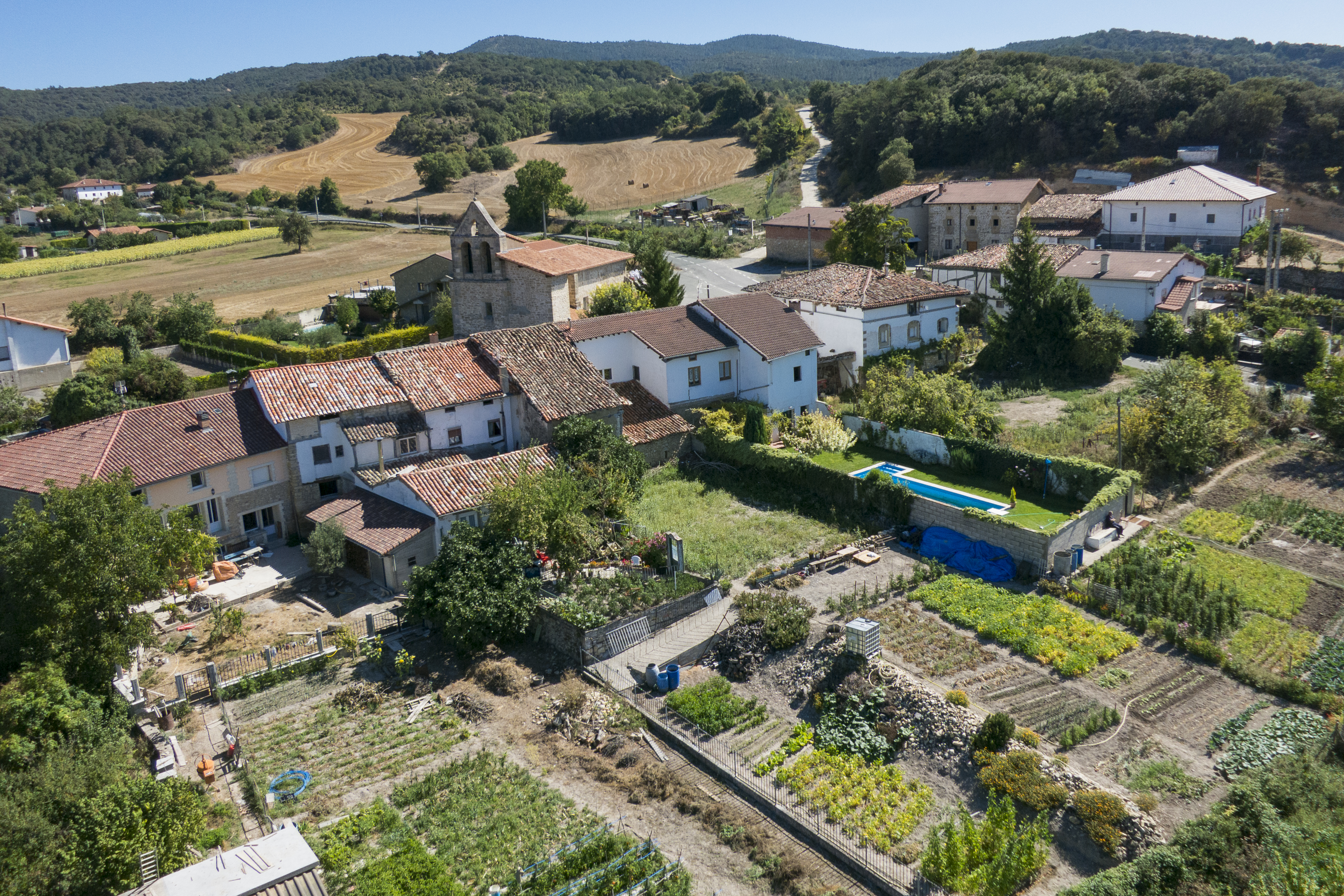 Atiega, Añana, Araba, Basque Country